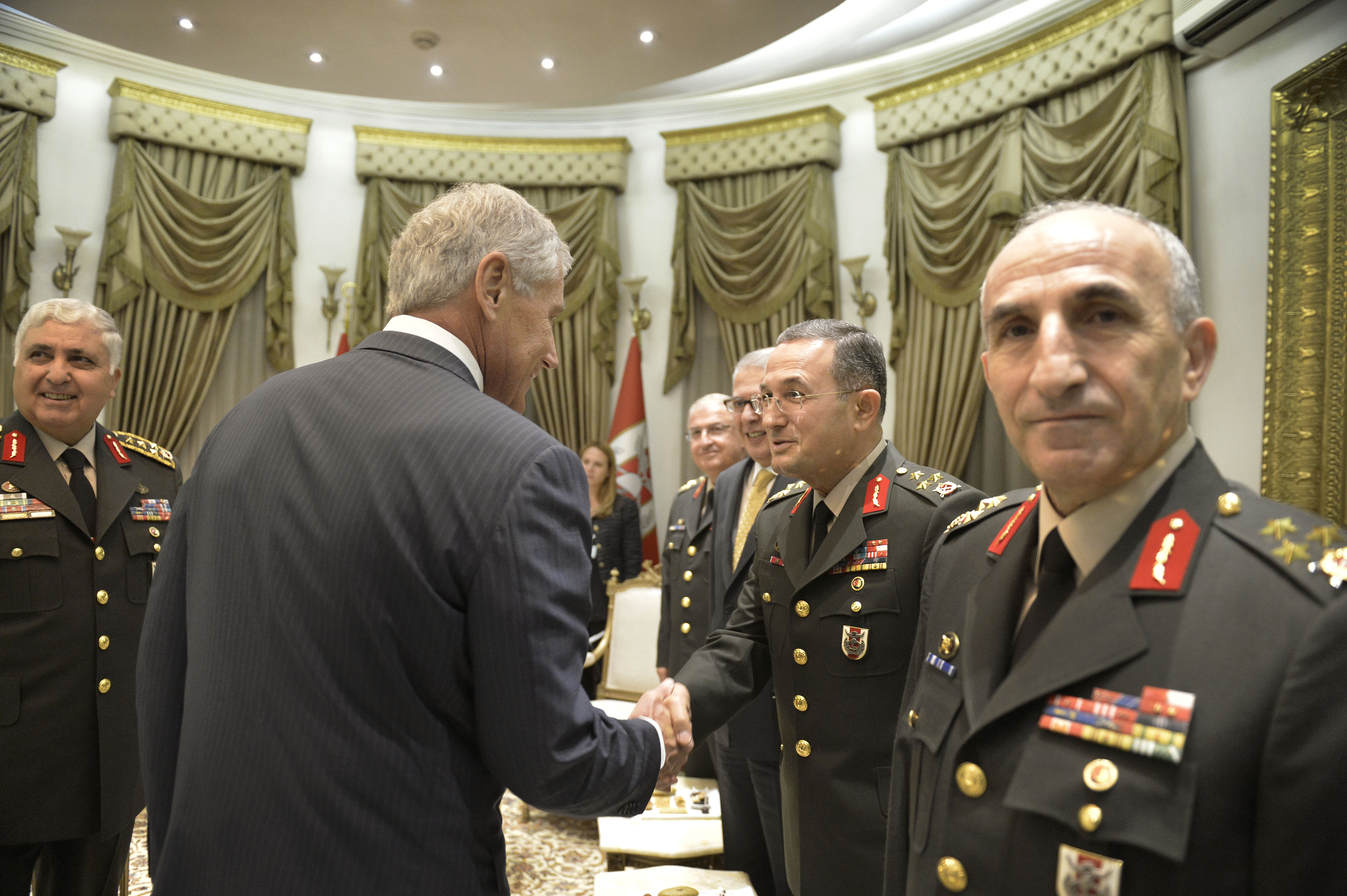 U.S. Secretary of Defense Chuck Hagel, center left, introduces himself to Turkish military leaders Sept. 8, 2014, upon arriving for a meeting in Ankara, Turkey, with Turkish army Gen. Necdet Özel, left, the chief of the general staff of the Turkish military.